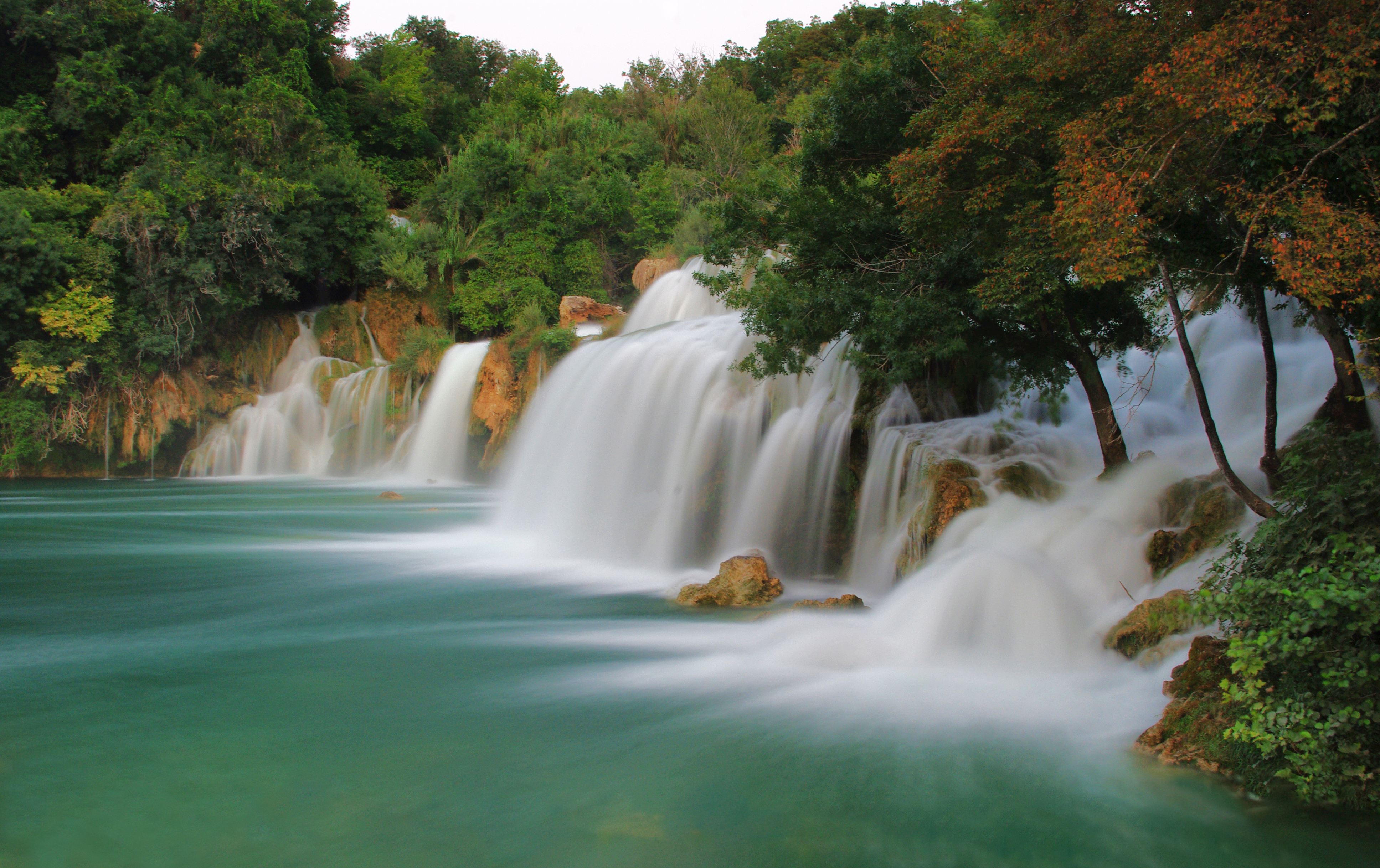 Skradinski Buk waterfall, Krka National Park, Croatia